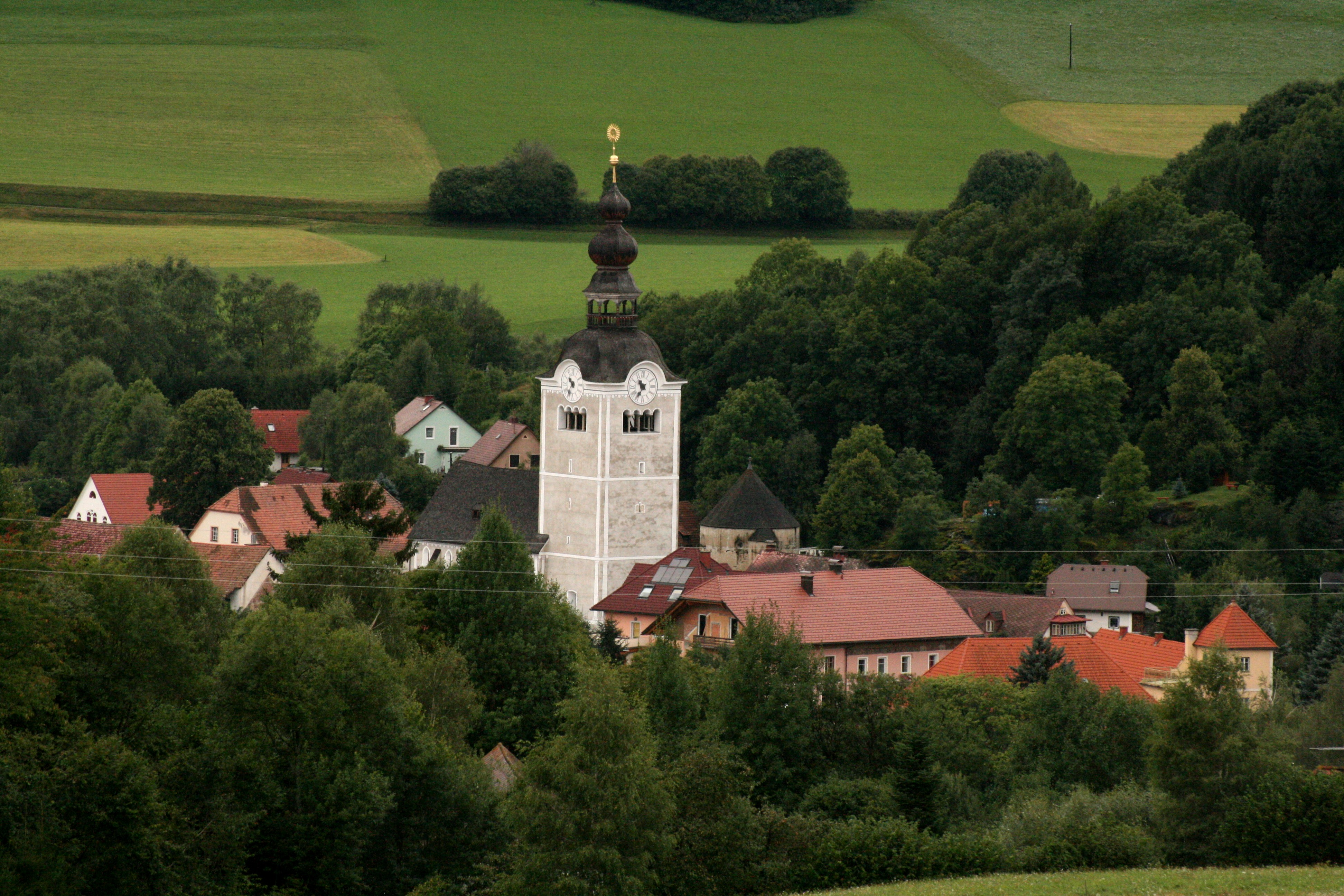 Sankt Marein bei Neumarkt in Styria, Austria, Europe